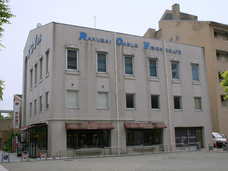 Headquarters of Rakusai Cable Vision, a CATV station in Nishikyo-ku, Kyoto, Japan